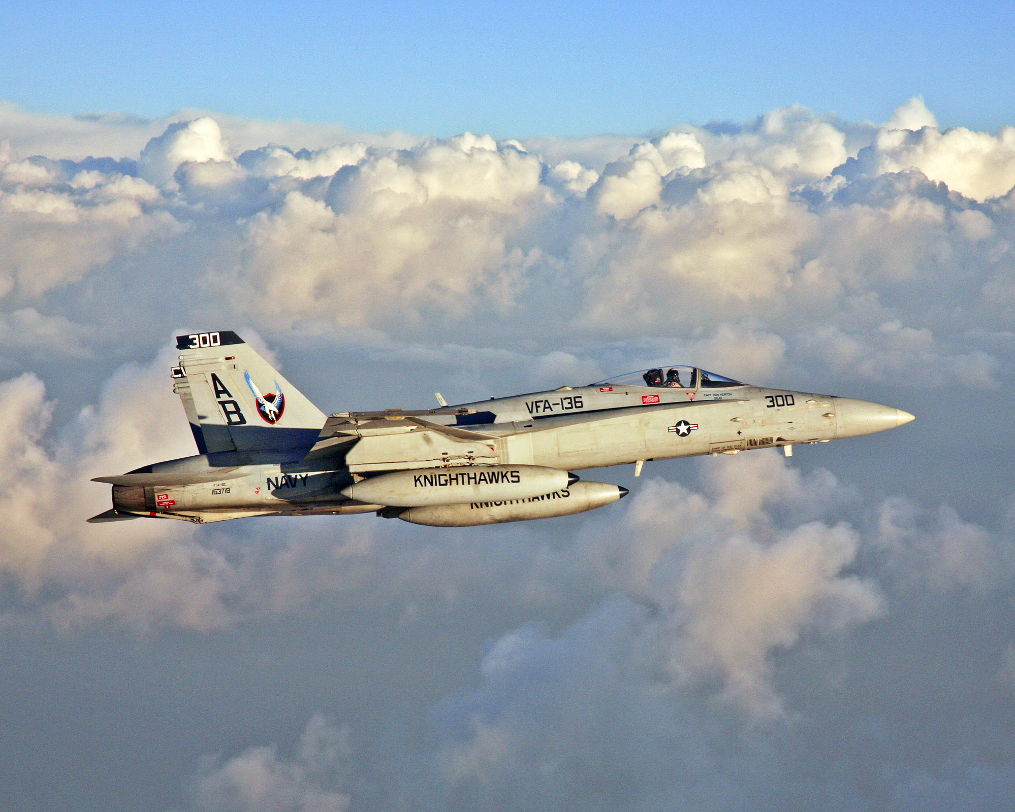 MEDITERRANEAN SEA (July 21, 2007) - An F/A-18C Hornet assigned to the "Knighthawks" of Strike Fighter Squadron (VFA) 136 flies over the Mediterranean Sea during a unit-level training mission. VFA-136 is part of Carrier Air Wing (CVW) 1 embarked aboard the nuclear powered aircraft carrier USS Enterprise (CVN 65). The Enterprise Carrier Strike Group is on a scheduled six-month deployment in support of maritime security operations and the global war on terrorism. U.S. Navy photo by Lt. Peter Scheu (RELEASED)